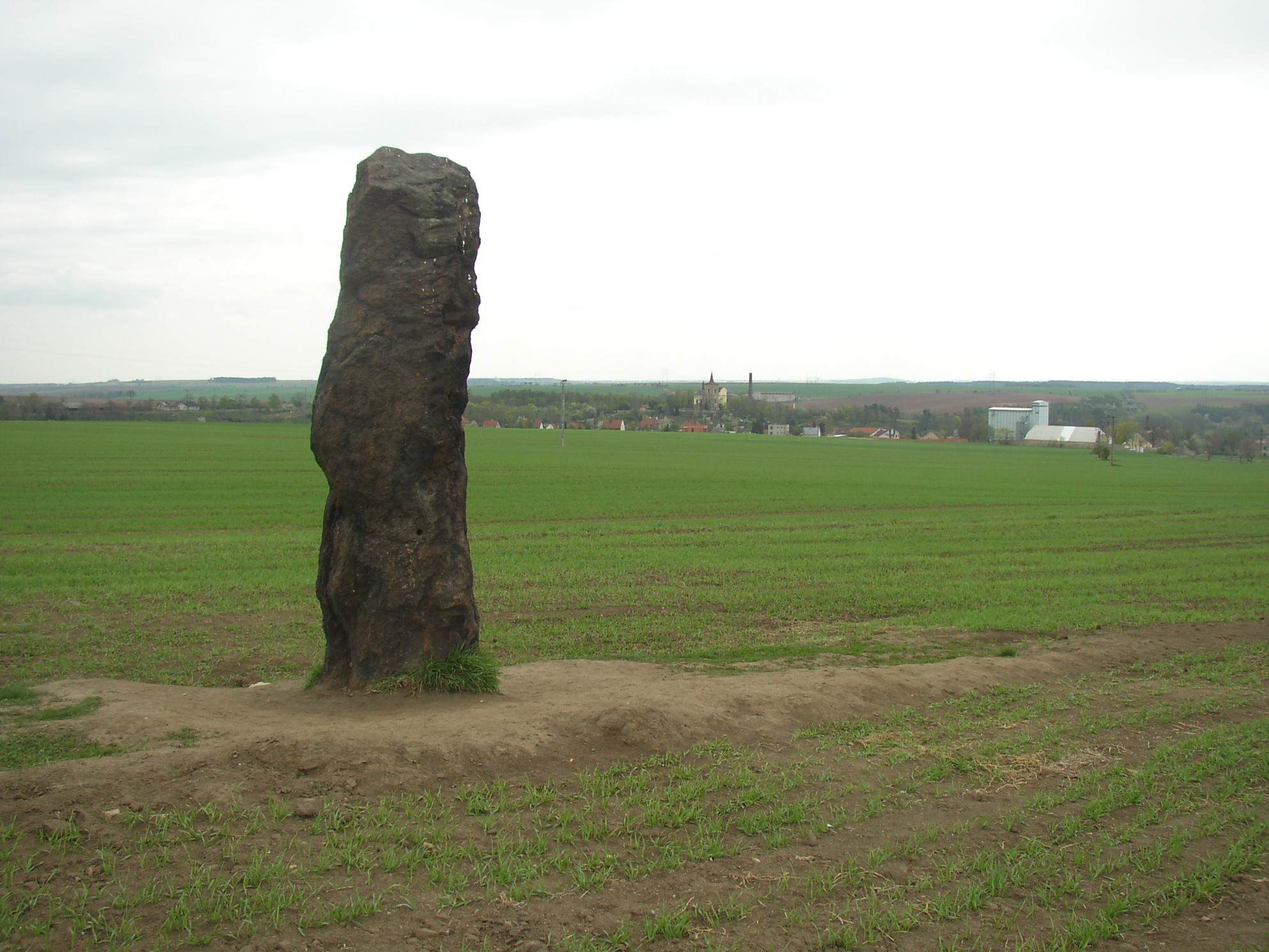 Klobuky, Kladno District, Czech Republic. Zkamenělý pastýř ( Shepherd turned-into-stone), an alleged menhir standing in a field northwest of the village. A view from northwest, Klobuky in the background.